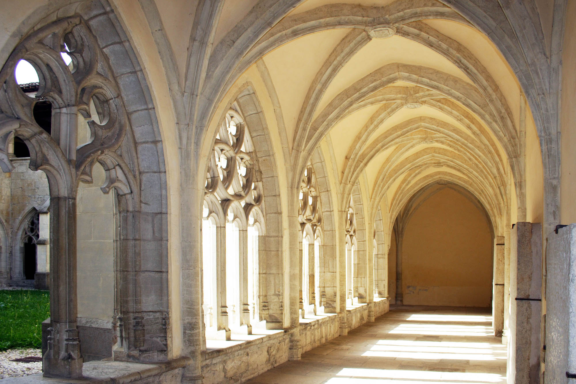 Abbaye d'Ambronay, Ain, France. Le cloître.